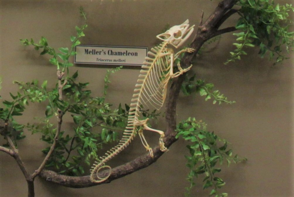 Bitis gabonica